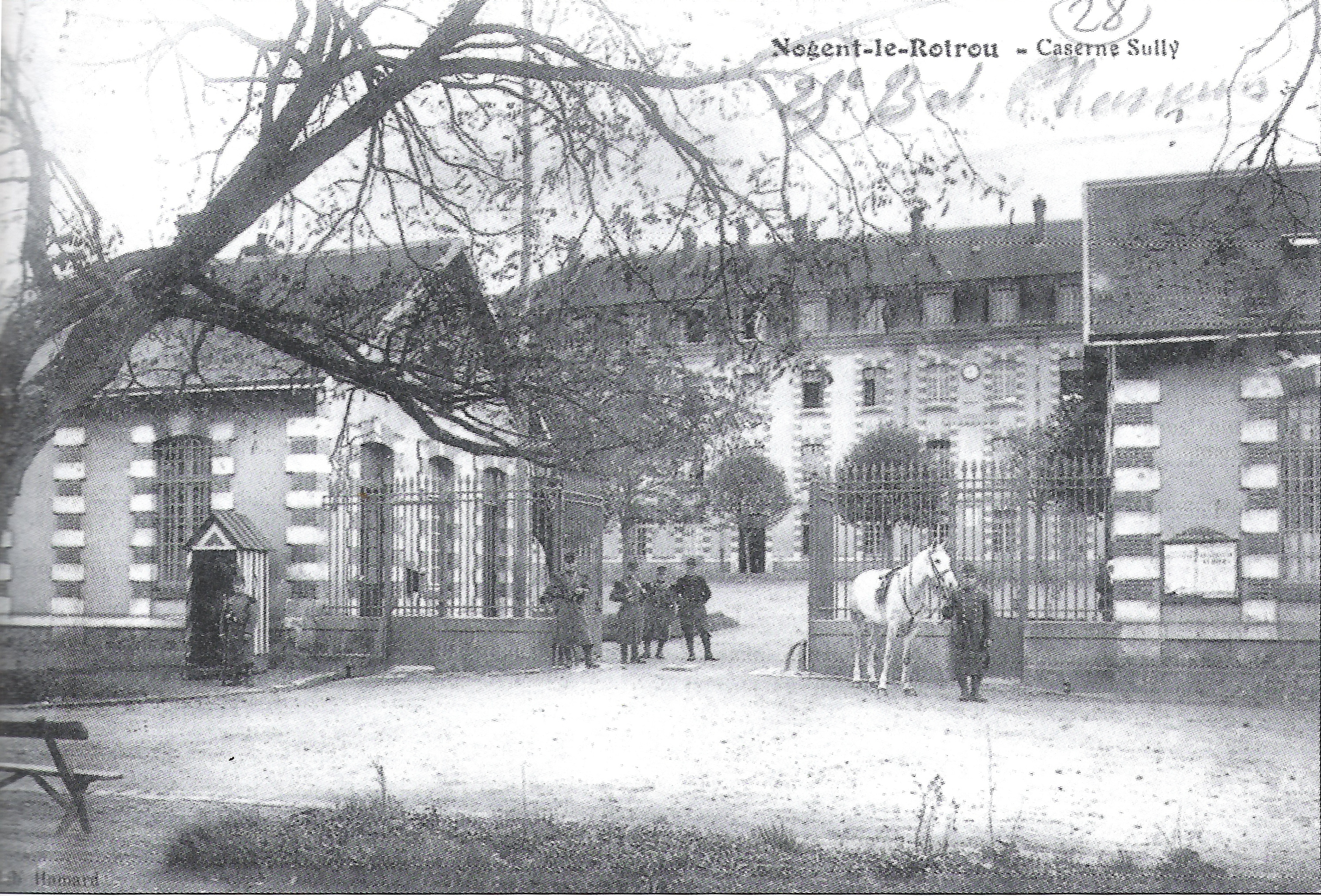 A postcard showing Sully barracks, built in 1875 in Nogent-le-Rotrou, Eure-et-Loir, France.